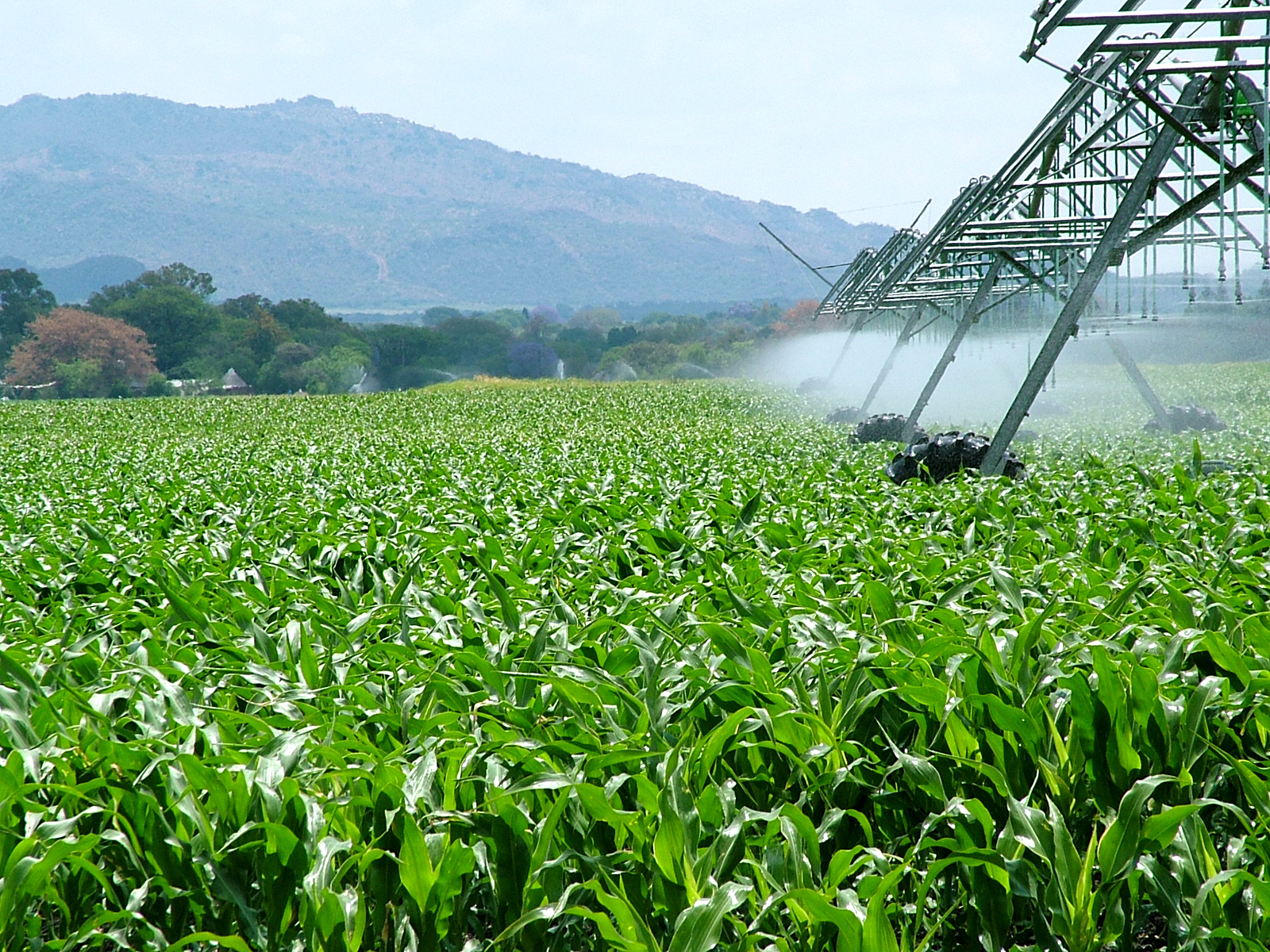 Cornfield in South Africa